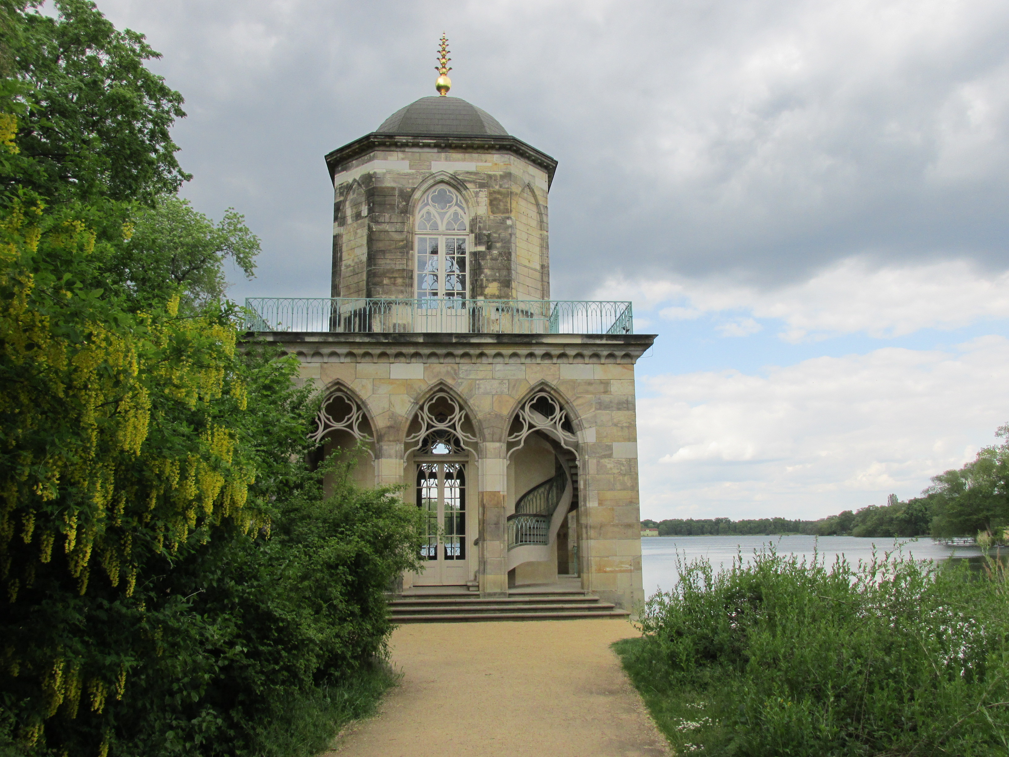 Gotische Bibliothek on Heiligen See at the southern end of the Neuen Garten, Potsdam.